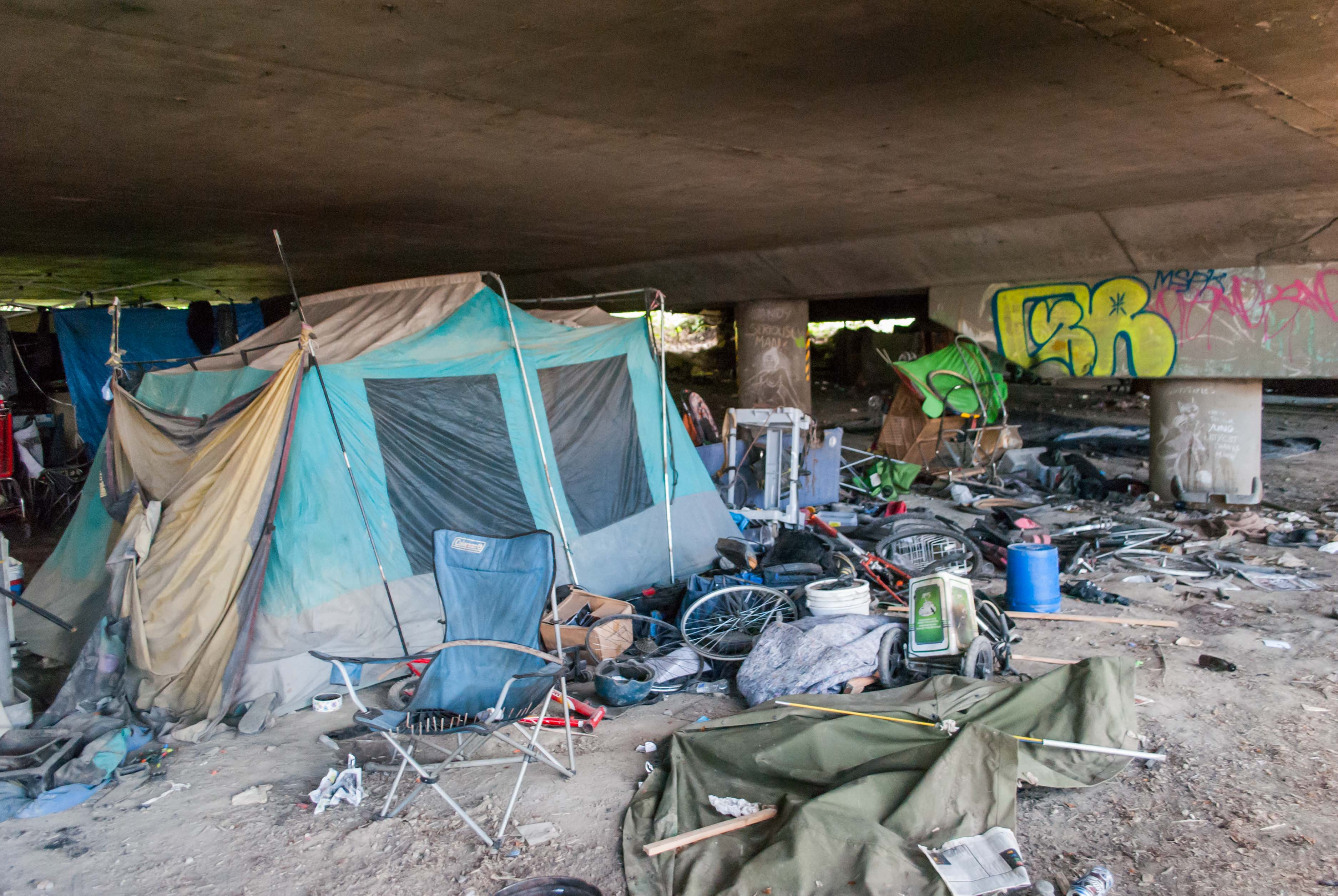 CM Bagshaw Tours Beacon Hill Greenbelt